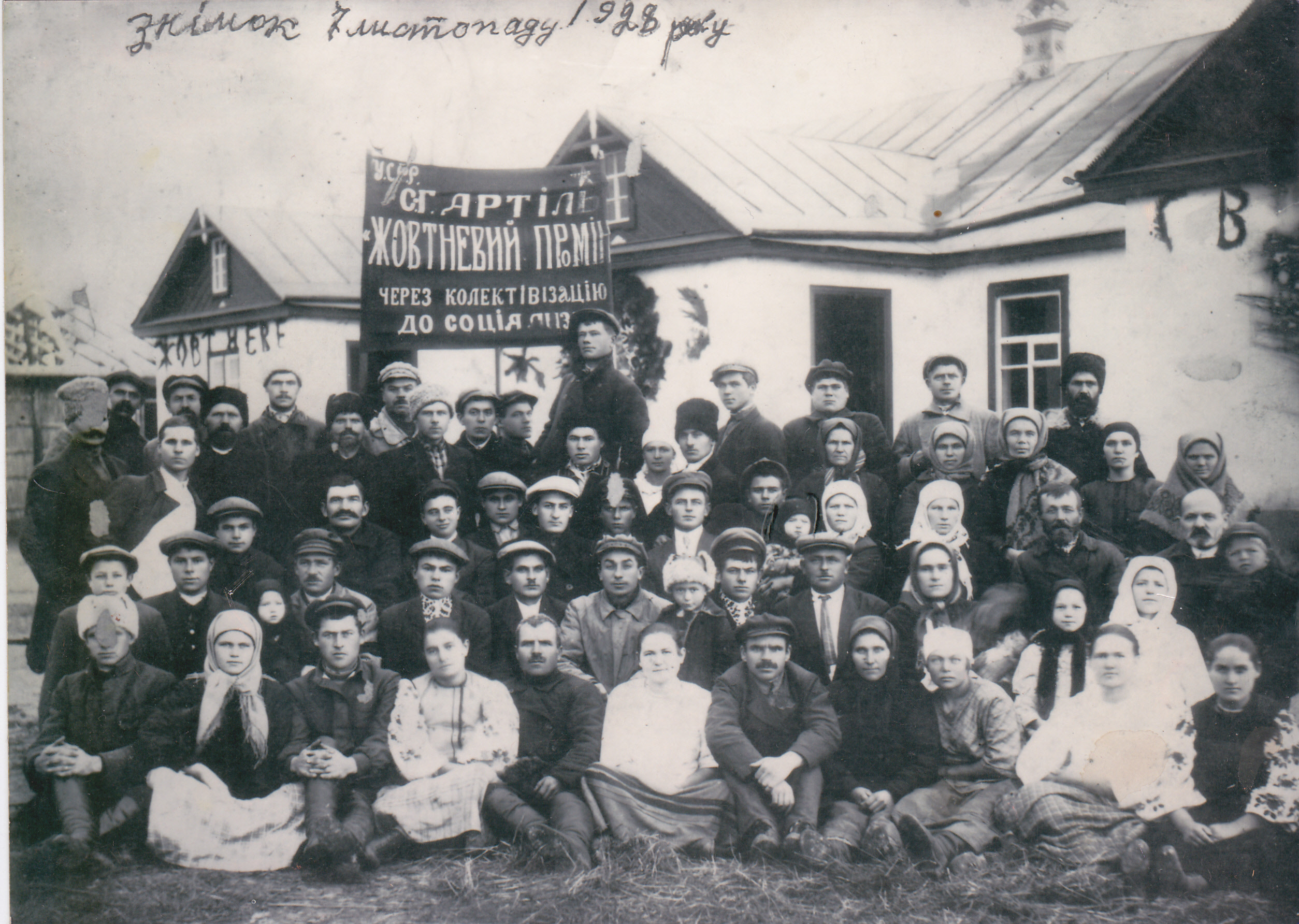 Communion artillery